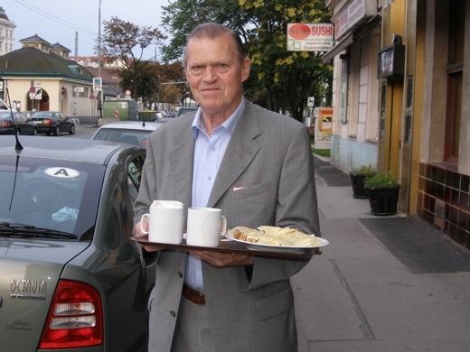 Engelbert Drechsler, Cafe Drechsler